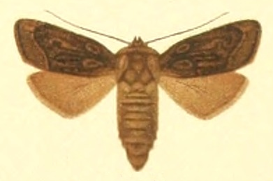 Image from Plate 5 of Die Gross-Schmetterlinge der Erde (The Macrolepidoptera of the World) Vol. 3